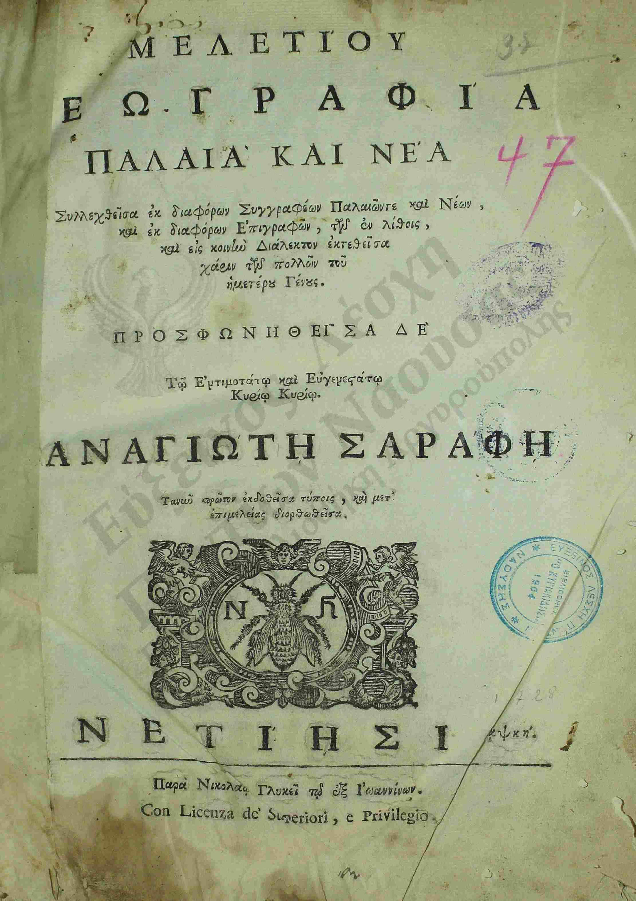 Geography Old and New, Meletios Mitrou, Venice, 1728